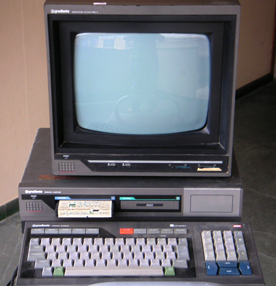 Brazilian Z80 MSX based computer from the 1980s.